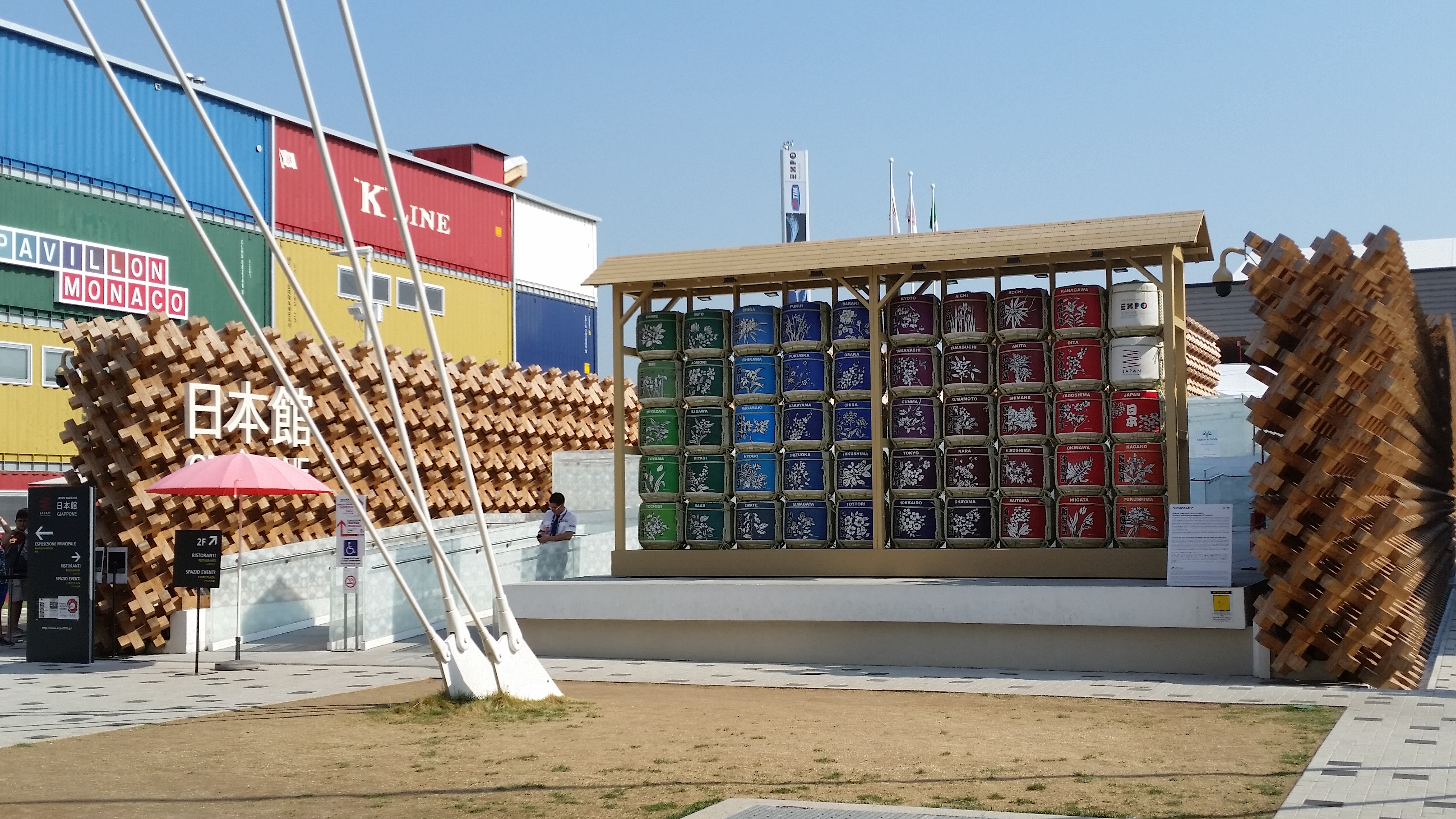 Pavilion of the Expo 2015 located in Milano (Italy)